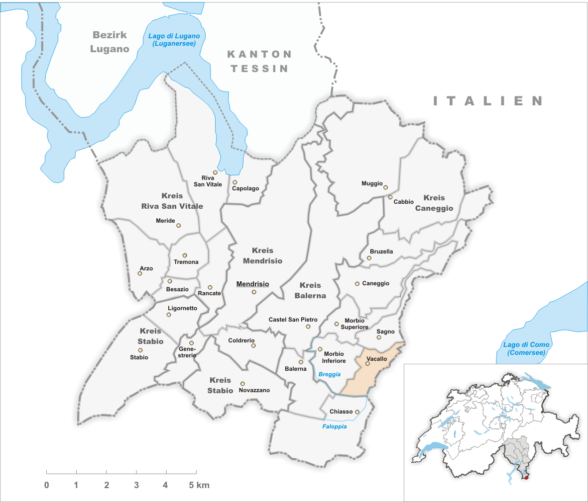 Municipality Vacallo